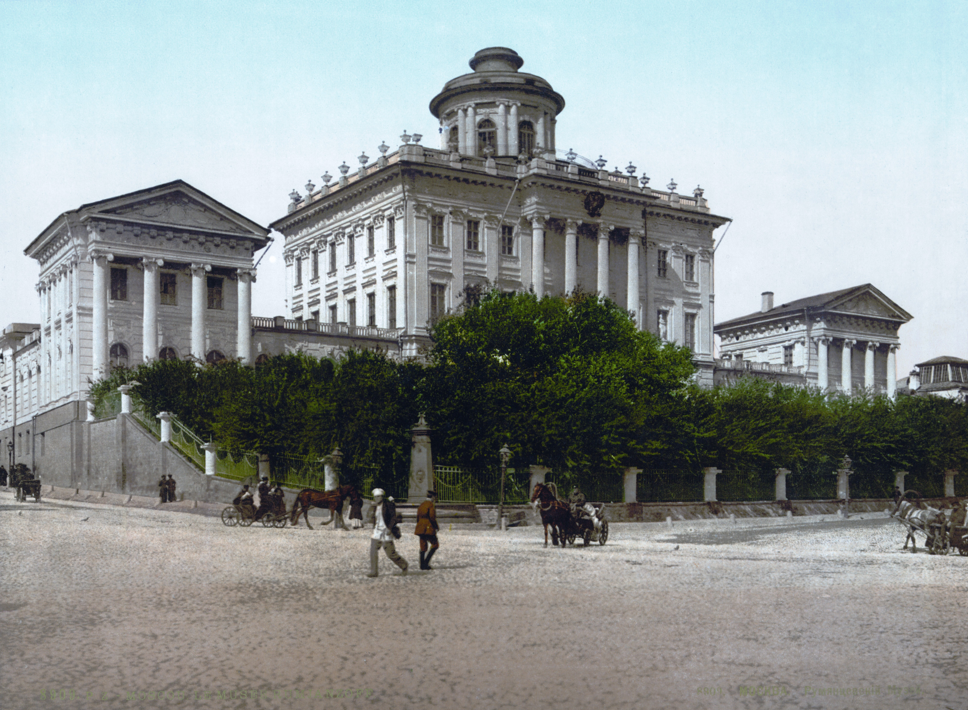 19th-century postcard of Pashkov House overlooking the Moscow Kremlin. Formerly the Rumyantsev Museum, now the Russian State Library. Print no. "8909"